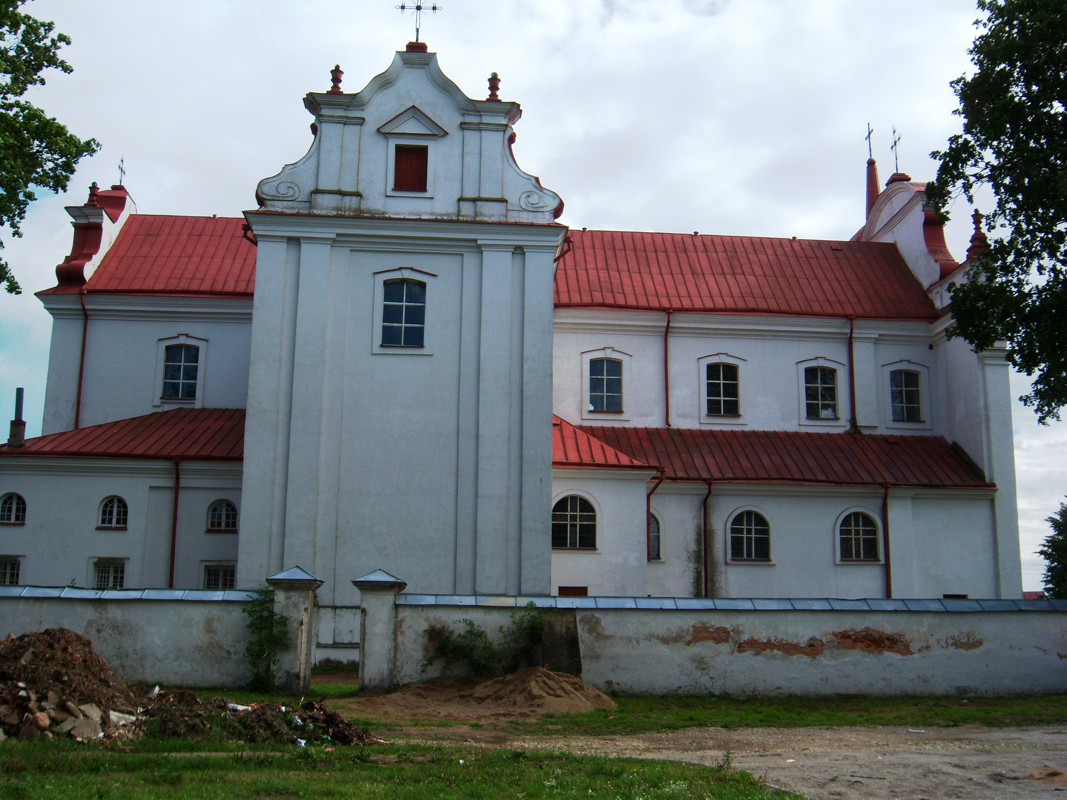 Troškūnai church, Anykščiai District. Lithuania